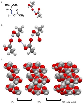 This image shows the intermolecular interactions and packing in three dimensions of acetic acid as a solid.